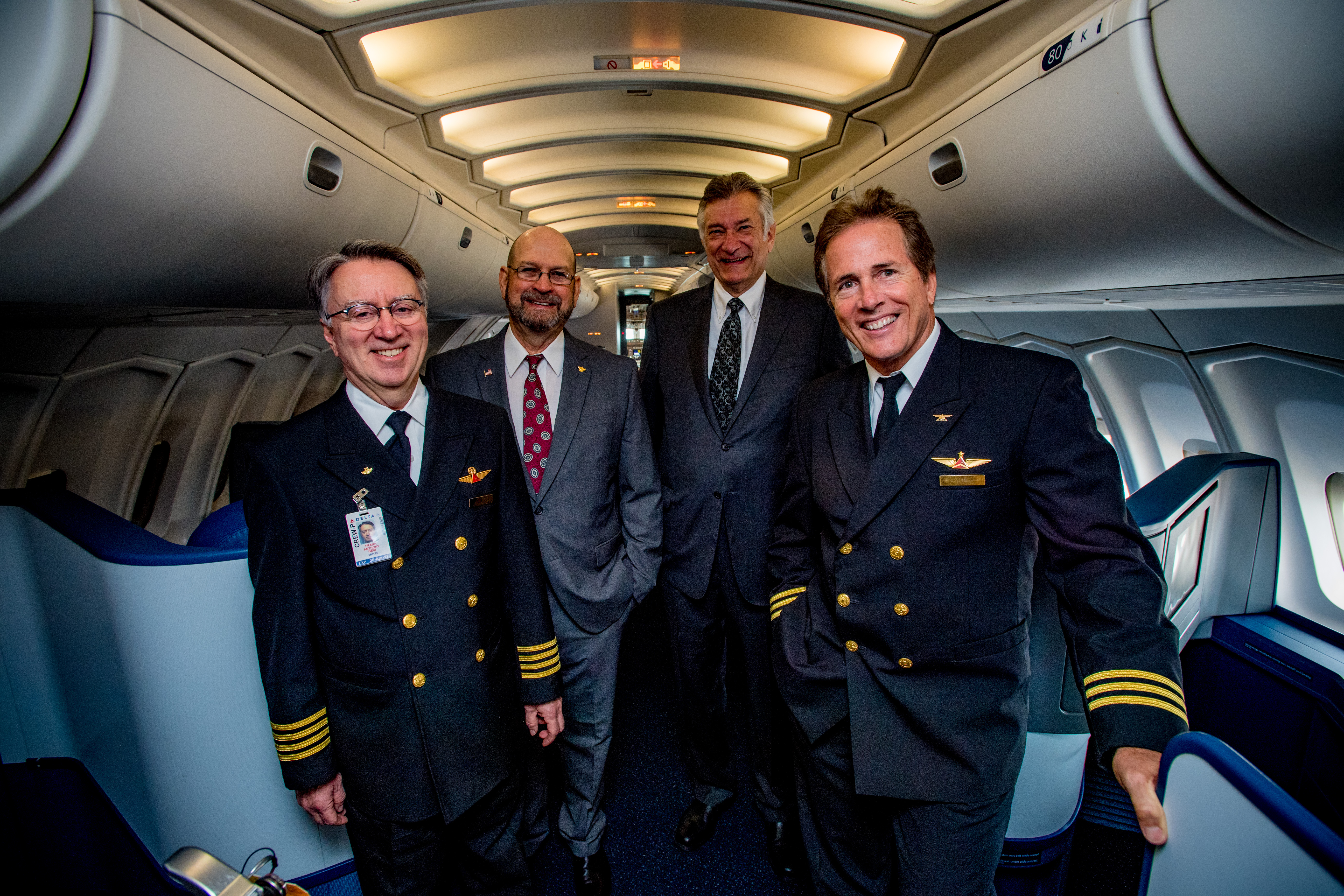 Historic ‘747 Experience’ exhibit opens its doors at Delta Flight Museum